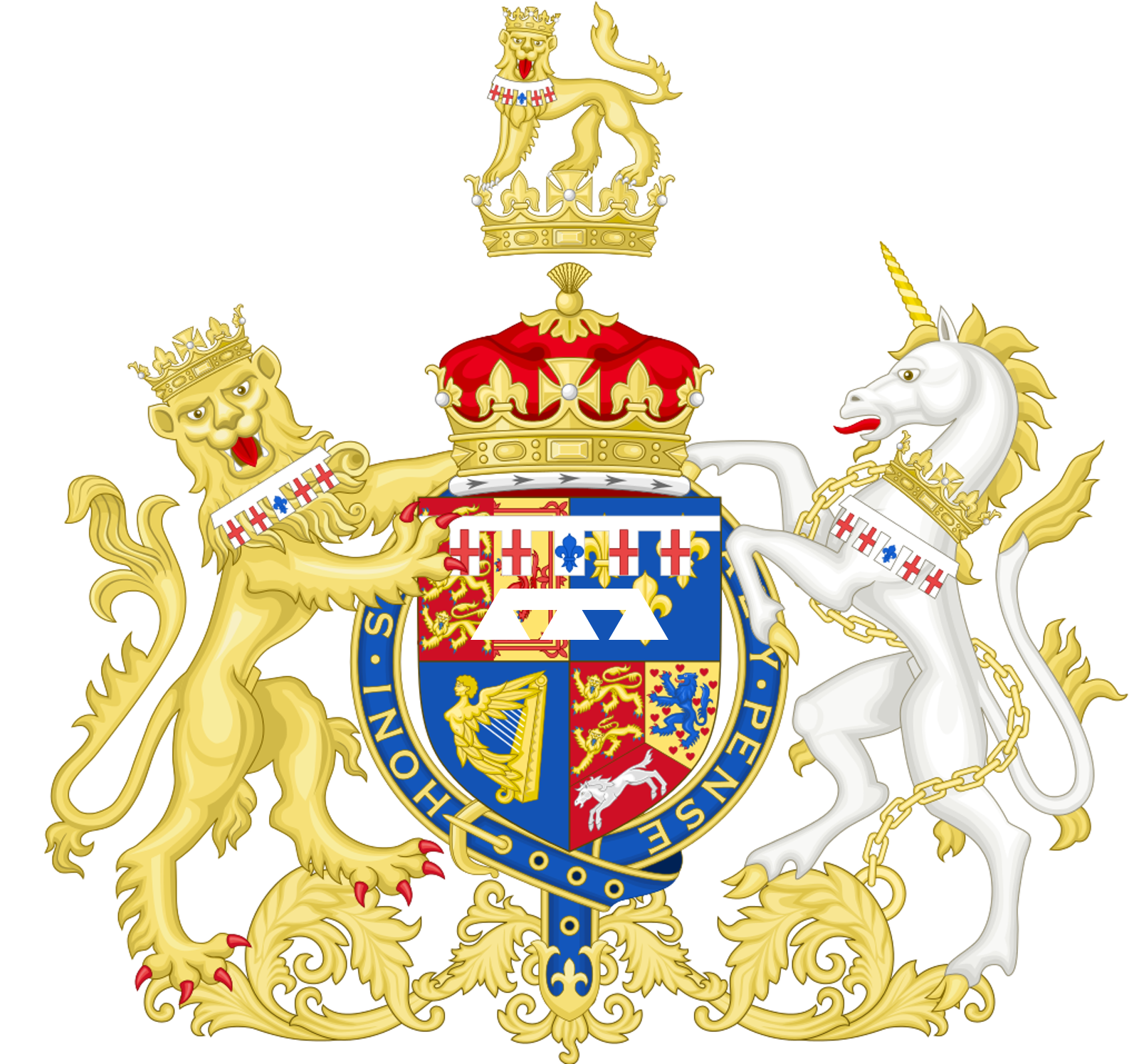 Achievement of arms of Prince William Frederick, Duke of Gloucester and Edinburgh